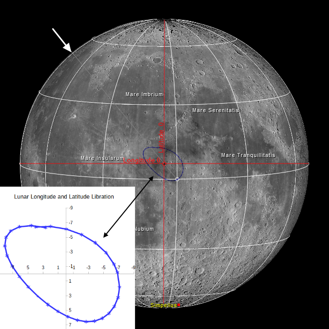 Lunar libration in september 2019